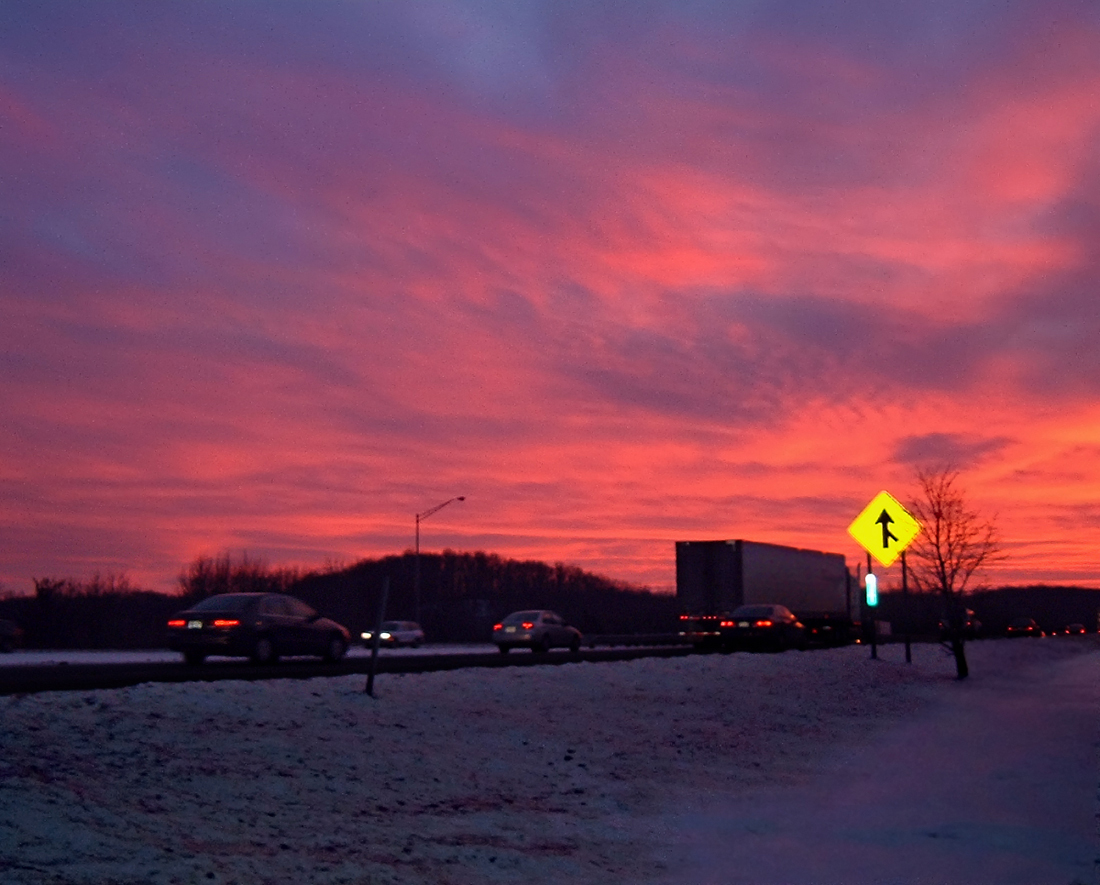 Cirrus-streaked sky shortly after sunset, Interstate 80 West, Morris County.